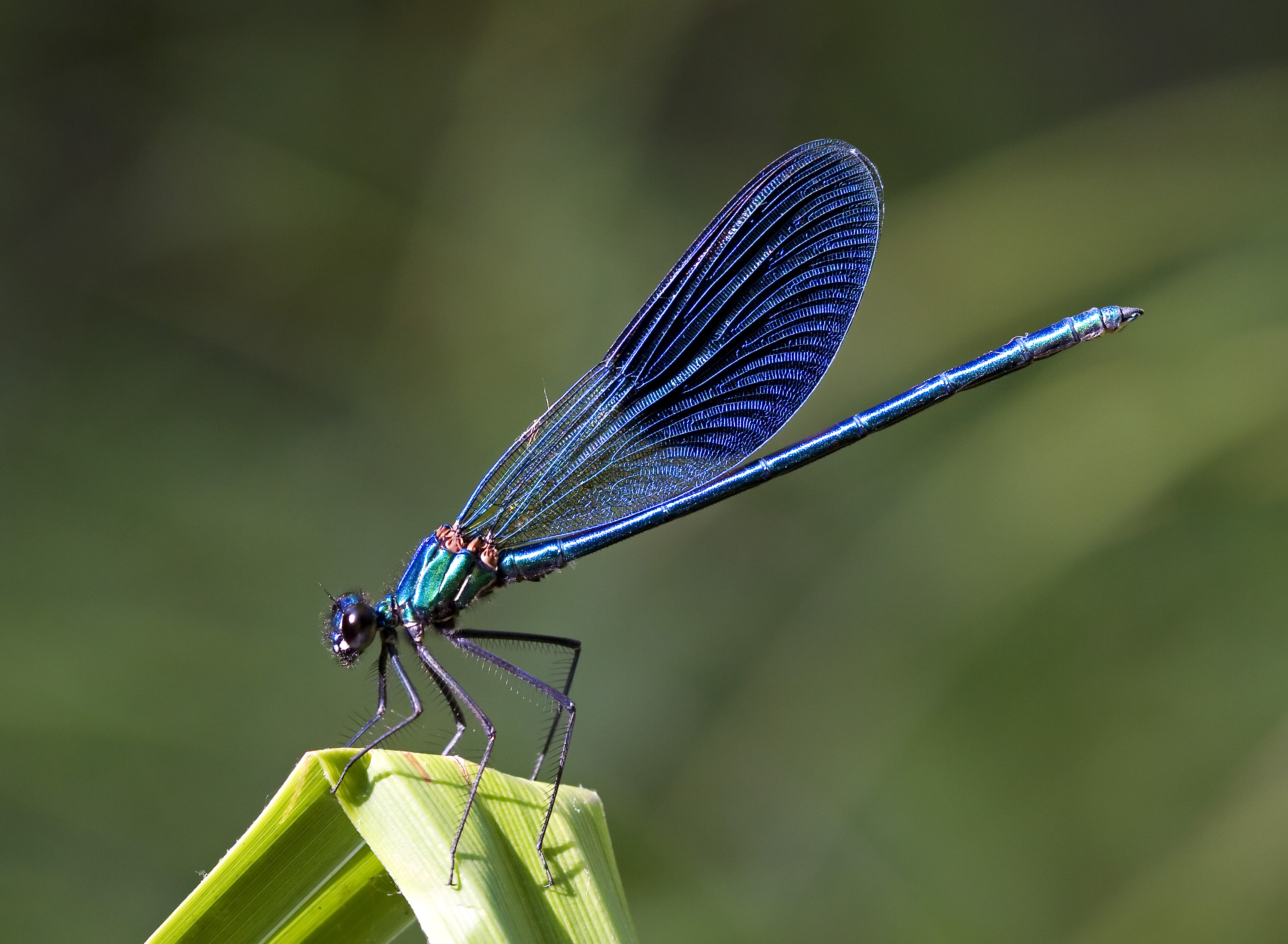 Try Large On Black ;-)